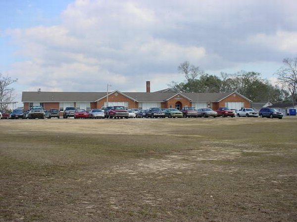 Break Stand